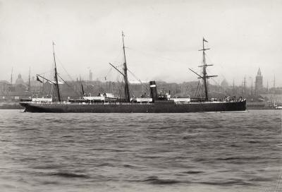 E. Chambré Hardman Archive caption: "Allan Line ship Sardinian at Liverpool."